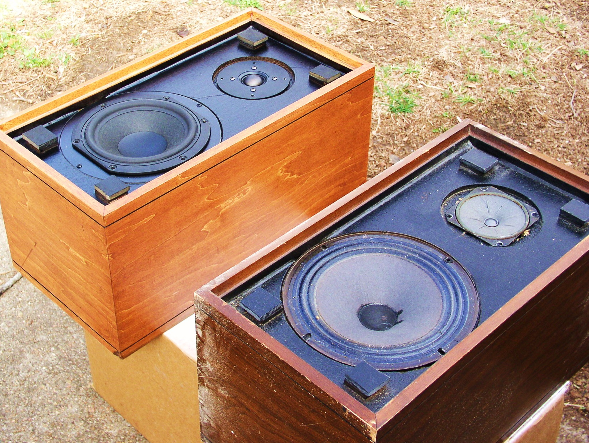 Rebuilt and refinished set of vintage Magnavox speakers using Peerles 6 1/2 in ch woofer and Usher 1 1/8 tweeter.